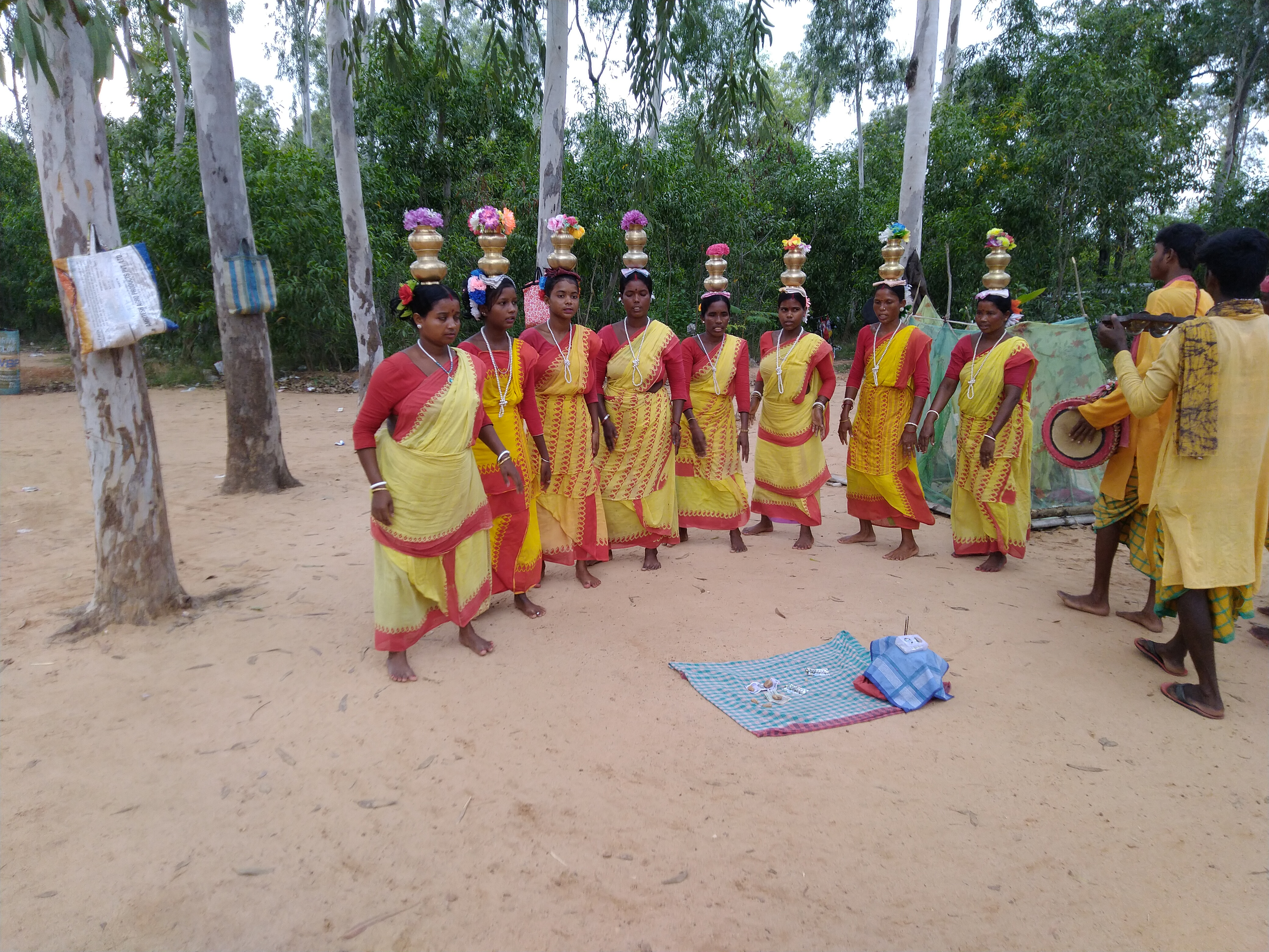 Now a days this traditional dancing and singing is become vary rare in West Bengal , India This photo has been taken in the country: India